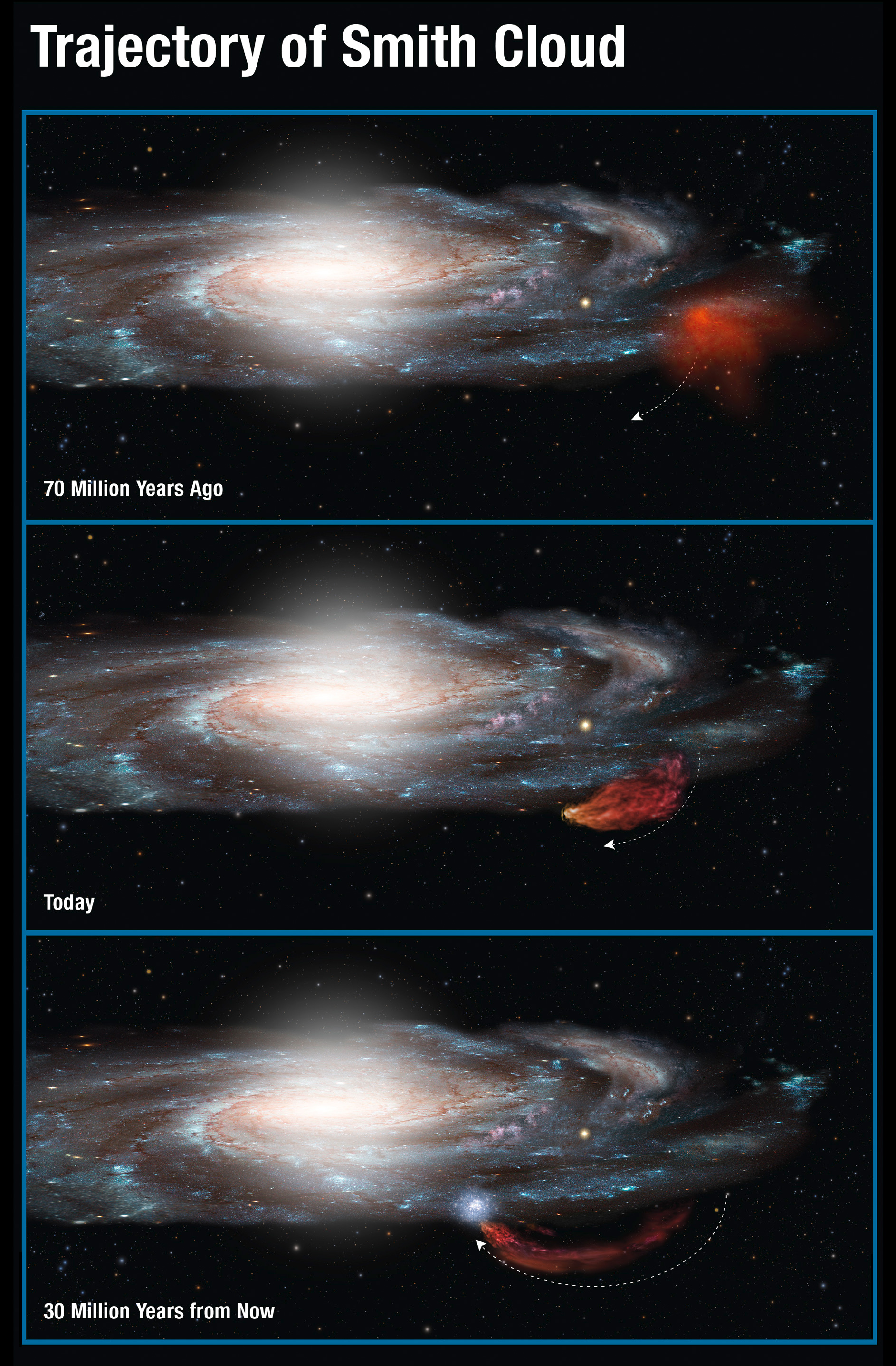 This diagram shows the 100-million-year-long trajectory of the Smith Cloud as it arcs out of the plane of our Milky Way galaxy and then returns like a boomerang. Measurements made with the NASA/ESA Hubble Space Telescope show that the cloud, because of its chemical composition, came out of a region near the edge of the galaxy's disc of stars 70 million years ago. The cloud is now stretched into the shape of a comet by gravity and gas pressure. Following a ballistic path, the cloud will fall back into the disc and trigger new star formation 30 million years from now.